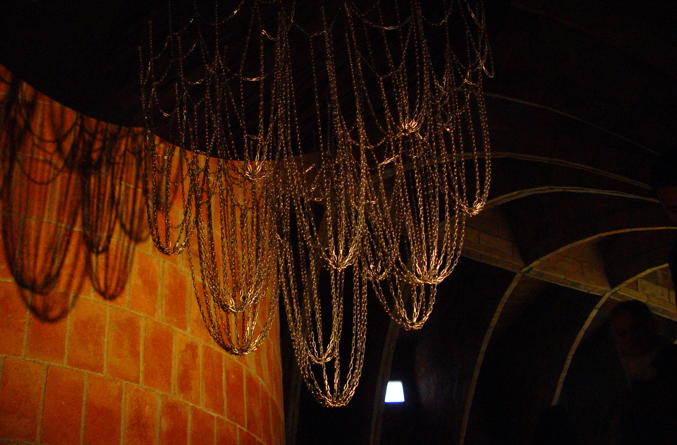 Gaudi's catenary model at Casa Milà